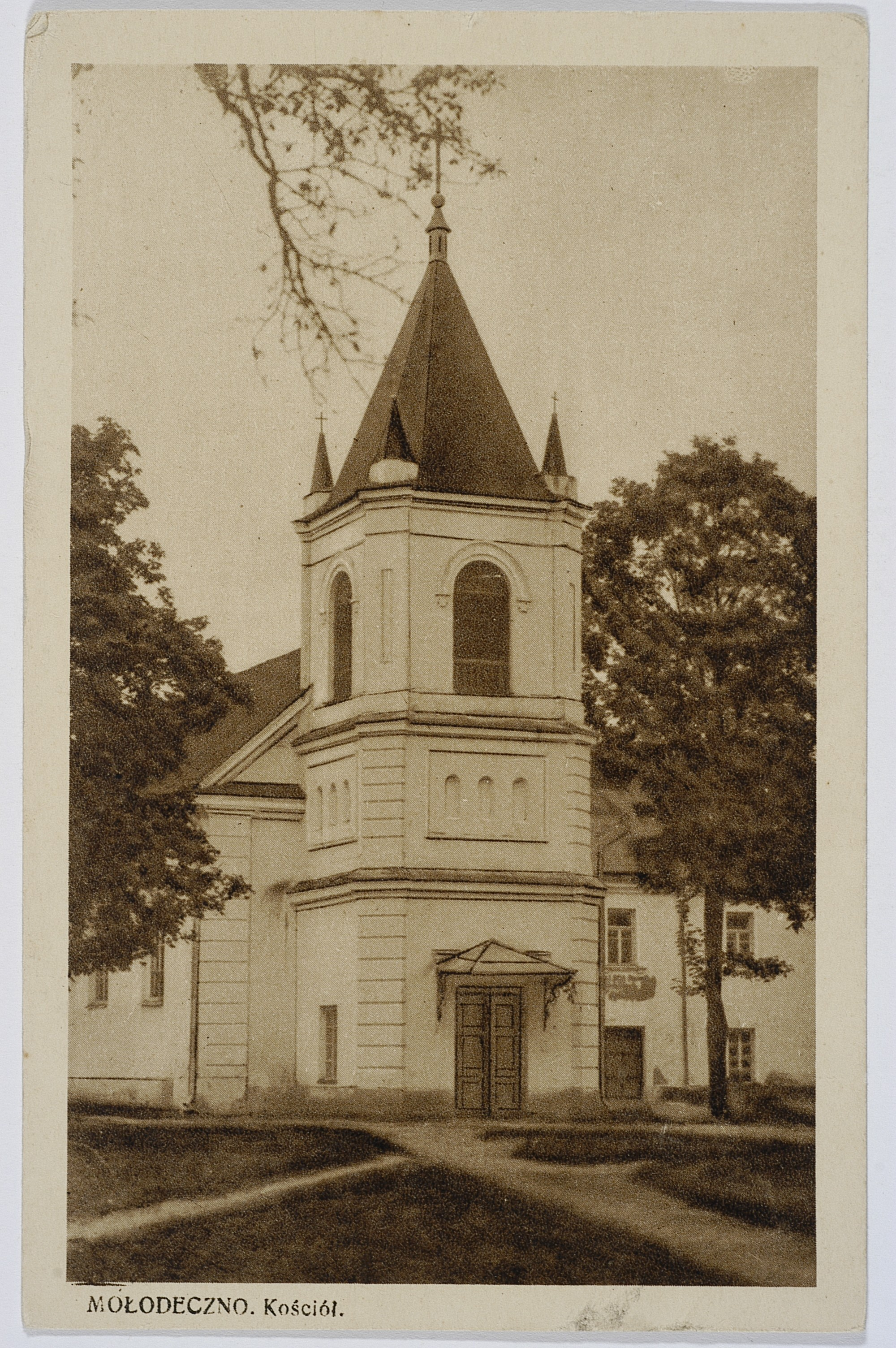 Trinitarian Catholic Church in Maładečna